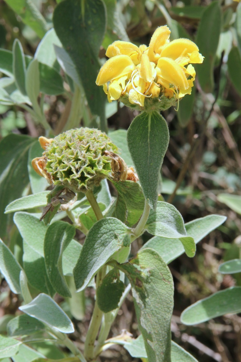 Phlomis fruticosa